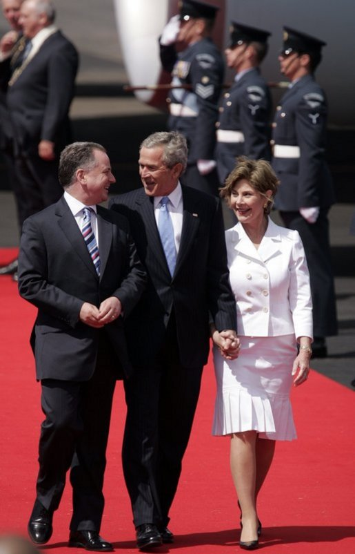 President George W. Bush and Laura Bush walk with Scotland's First Minister Jack McConnell during the playing of national anthems upon their arrival at Glasgow's Prestwick Airport.